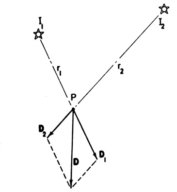 Arun Gershun, now in public domain